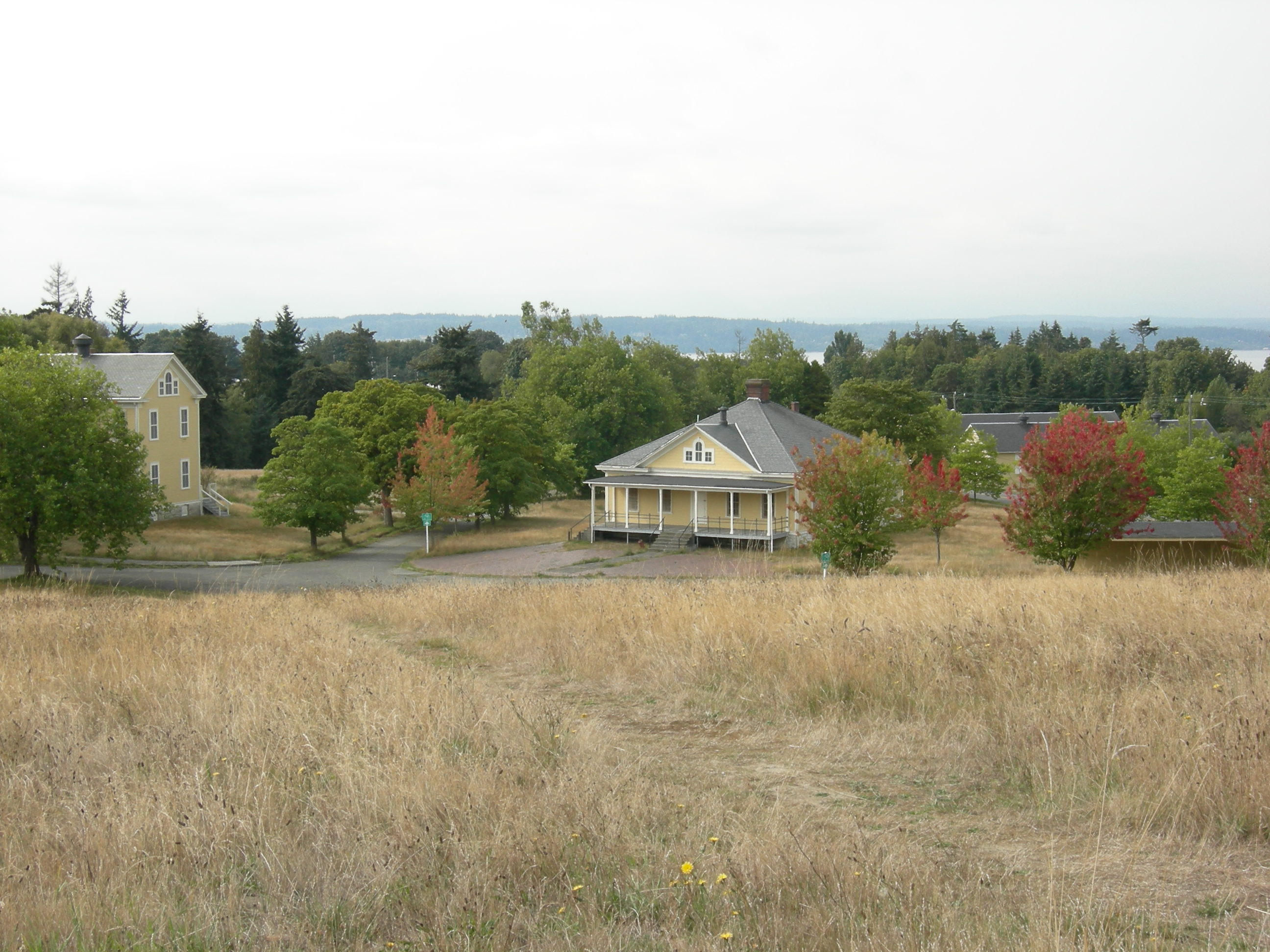 Disused buildings of Fort Lawton, Seattle, Washington seen from the Henry M. Jackson Viewpoint. These buildings are, left to right, the Band and Barracks in the "600 area", Guard House in the "700 area" and, in the background, Stables, in the "900 area". Fort Lawton is on the National Register of Historic Places.